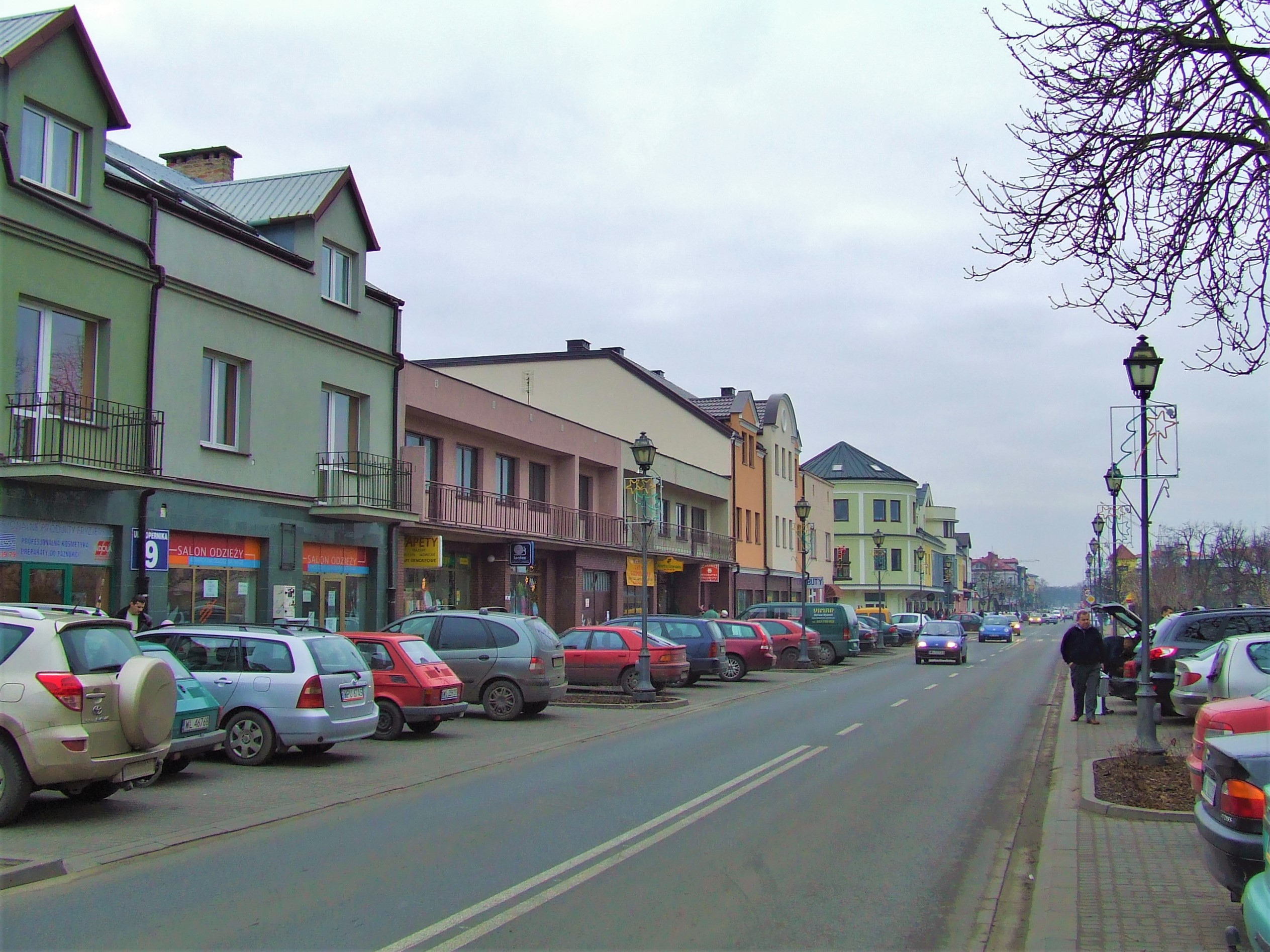 Legionowo, Piłsudskiego street, main street in the old part